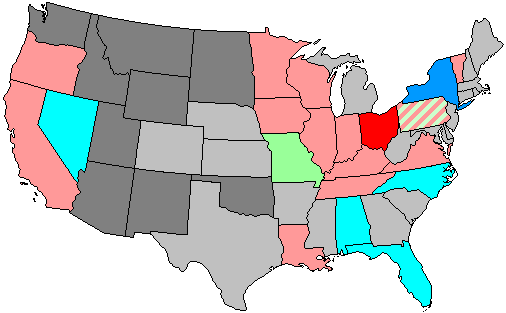 Summary of party change of U.S. house seats in the 1880 House election. Stripes indicate a tie between the gains of two or more parties. Legend: 6+ Democratic seat pickup 3-5 Democratic seat pickup 1-2 Democratic seat pickup 1-2 Republican seat pickup 3-5 Republican seat pickup 6+ Republican seat pickup 1-2 Independent seat pickup 3-5 Readjuster seat pickup 1-2 Greenback seat pickup 3-5 Greenback seat pickup Note: years ending in 2 may have inconsistent results due to redistricting.